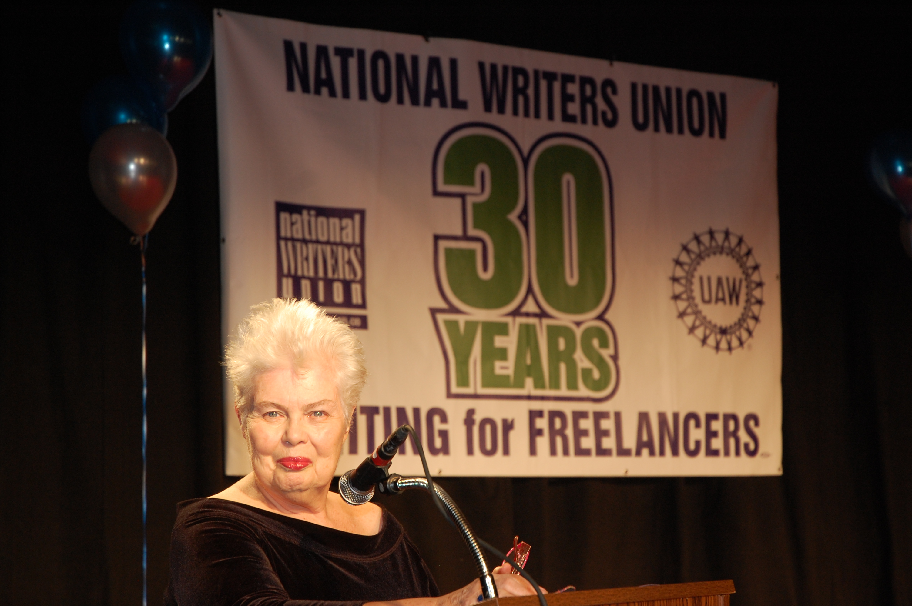 Author / activist Susan E. Davis speaking at the National Writers Union (UAW 1981) 30th anniversary celebration in NYC.